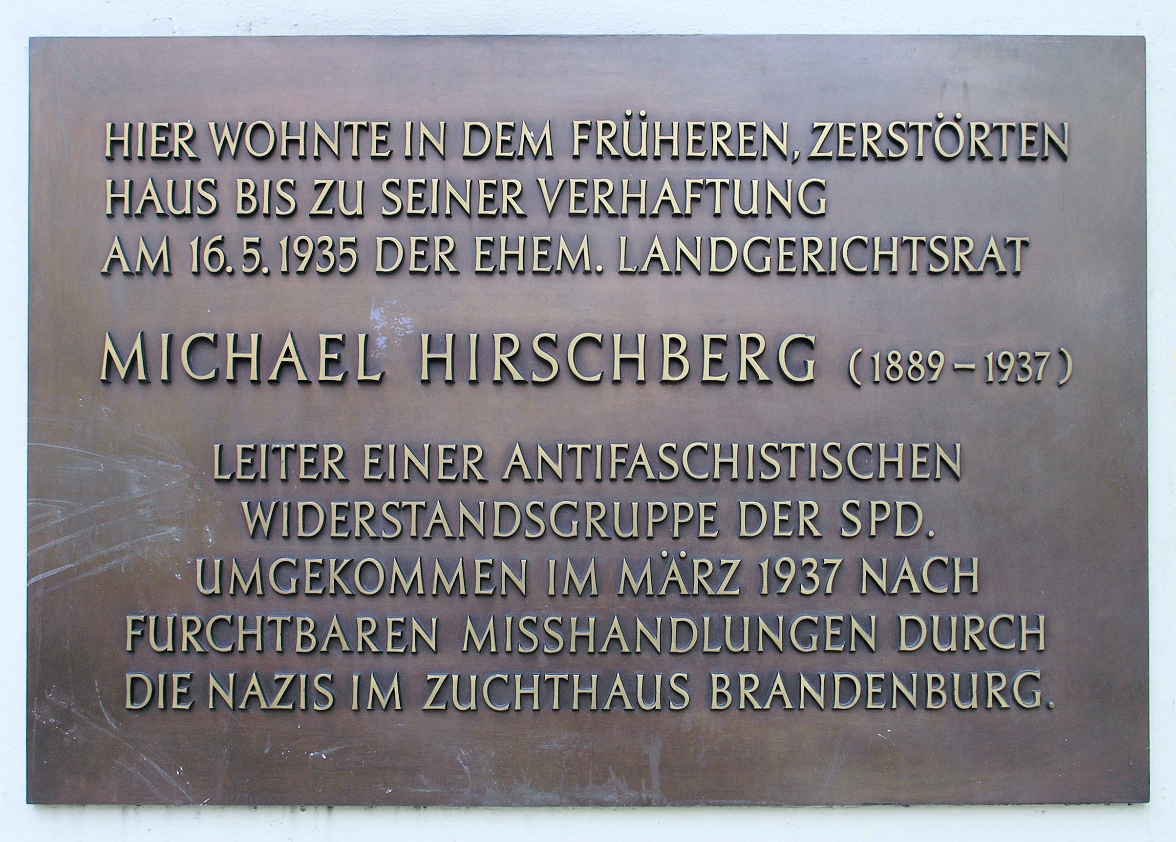 Memorial plaque, Michael Hirschberg, Winterfeldtstraße 8, Berlin-Schöneberg, Germany